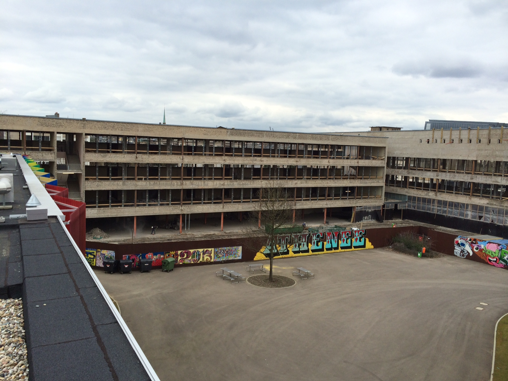 Athénée de Luxembourg, February 2014, during renovation